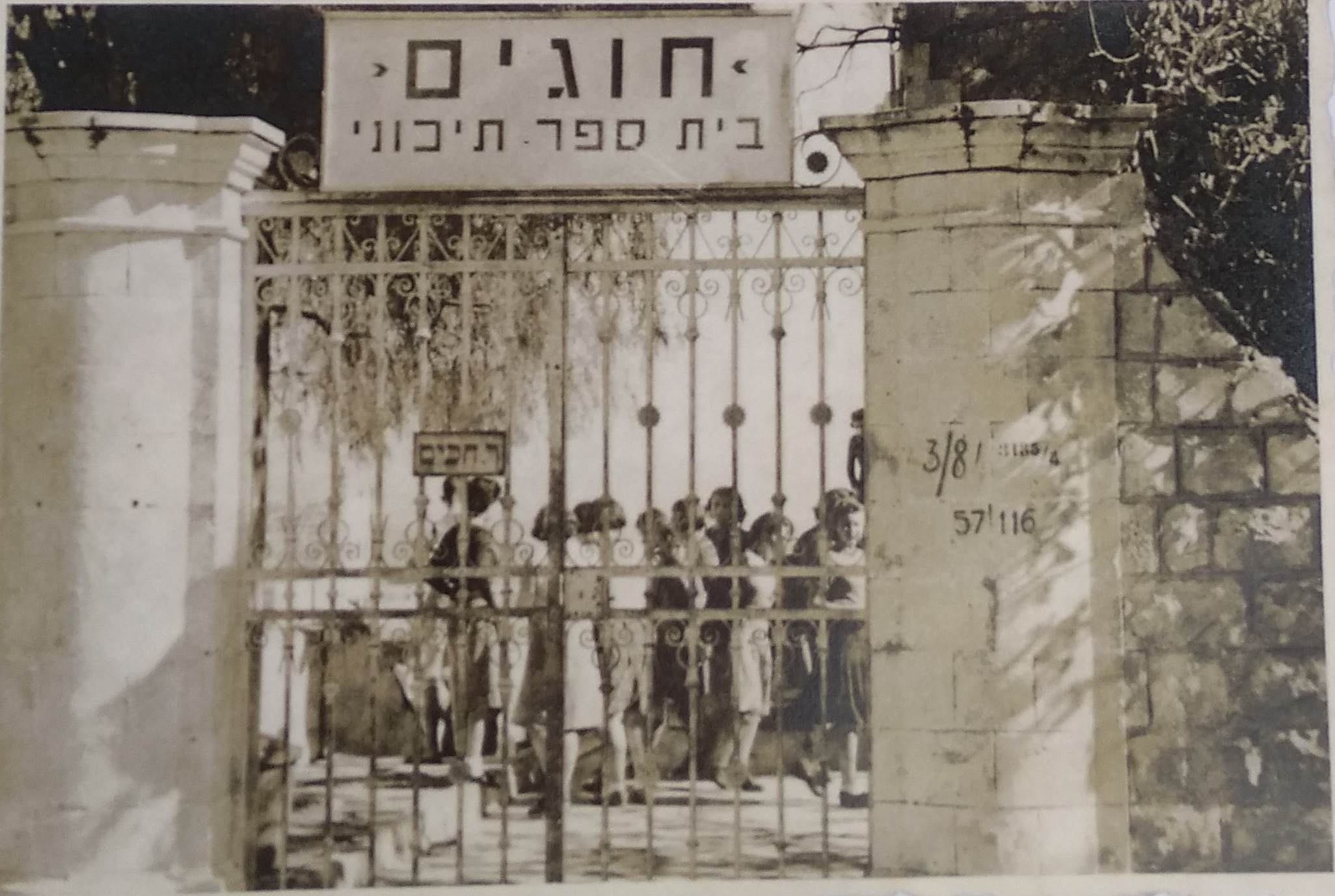 Hugim School, on Herzeliya St. End of the 30's